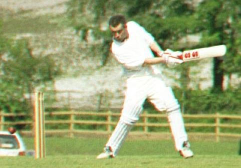 A batsman playing for Woore CC, Shropshire, UK, plays an orthodox late cut. Taken by User:Gareth Owen, at Pott Shrigley, Cheshire. Early summer, 2004. Released under GFDL